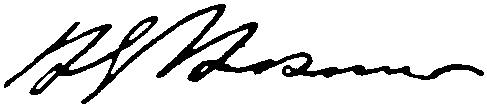 Signature of United States sculptor Harriet Hosmer